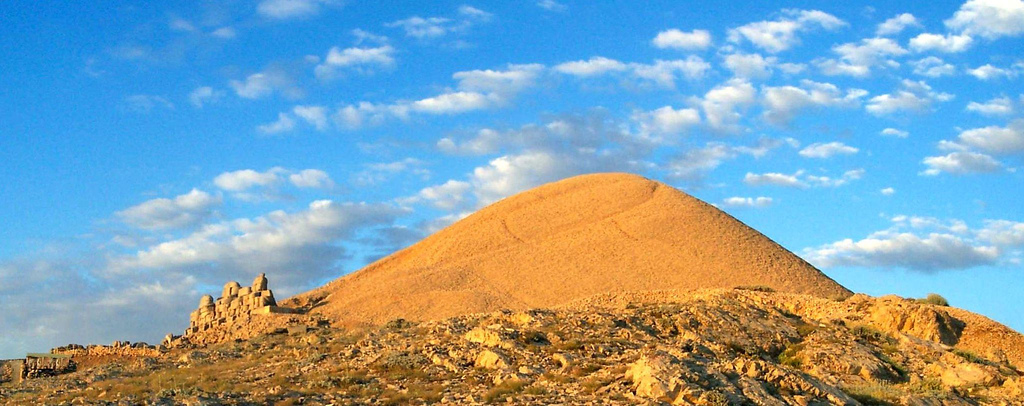 Mount Nemrut is a 2,134 metre high mountain in southeast Turkey and features numerous archaeological ruins including those of the tomb-sanctuary of Antiochus Theos, the most powerful king of the ancient Armenian kingdom of Commagene. The site of Antiochus' interment atop Mount Nemrut, or Nemrut dagi, was named to the UNESCO World Heritage list in 1987.